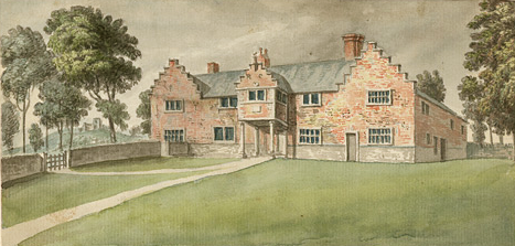 Plas Clough, Denbigh, by Moses Griffith c.1775. Plas Clough, near Denbigh, was built by Sir Richard Clough, partner of Sir Thomas Gresham. Clough, son of a Denbigh glover, was based in Antwerp from 1552 until 1567. He made the acquaintance of Cartographer Abraham Ortelius, whom he put in contact with the Humphrey Llwyd. Clough married Katherine of Berain, known as 'Mam Cymru' when he built Plas Clough as his primary residence immediately afterwards. He also built Bach-y-Graig, as a lodge-cum-office, with associated warehouse ranges.